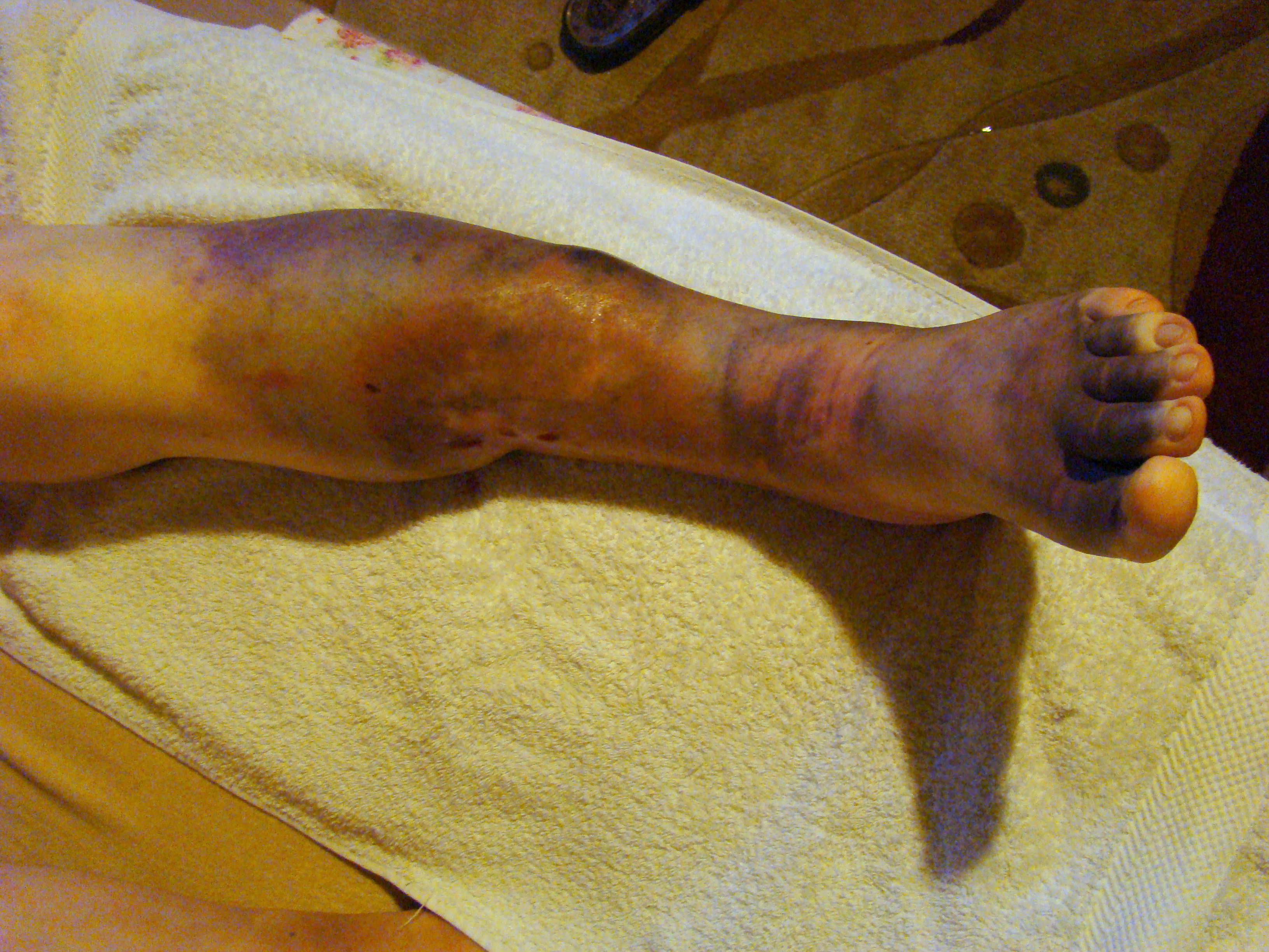 Patient with post-thrombotic syndrome and leg ulcers